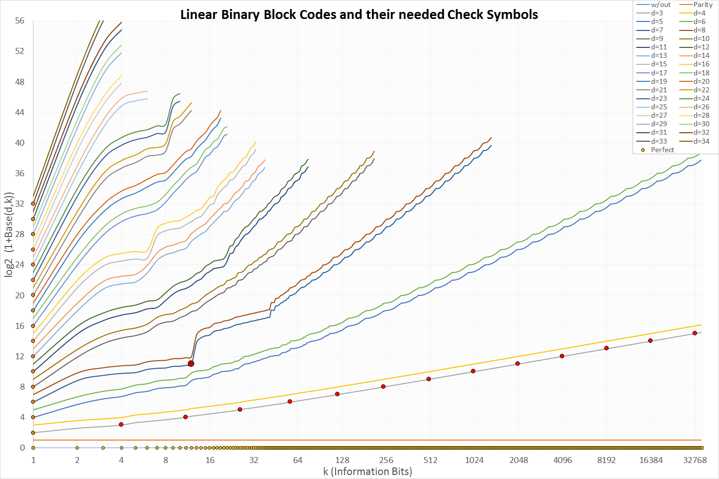 Linear Binary Block Codes. There theoretical limits (such as the hamming limit), but another question is which codes can actually constructed. It is like putting spheres in a box ... This diagram shows the constructable codes, which are linear and binary. The x-axis shows the number of protected symbols k, the y-axis the number of needed check symbols n-k. Plotted are the limits for different Hamming distances from 1 (unprotected) to 34. Marked with dots are perfect codes: light orange: trivial unproteced codes orange: trivial repeat codes dark orange: classic perfect hamming codes red: the only perfect binary Golay code